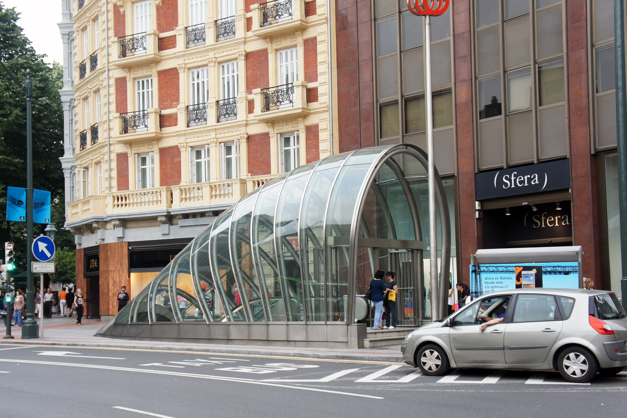 Moyua Station, Bilbao Metro. Plaza de Federico Moyúa, Bilbao, Basque Country, Spain